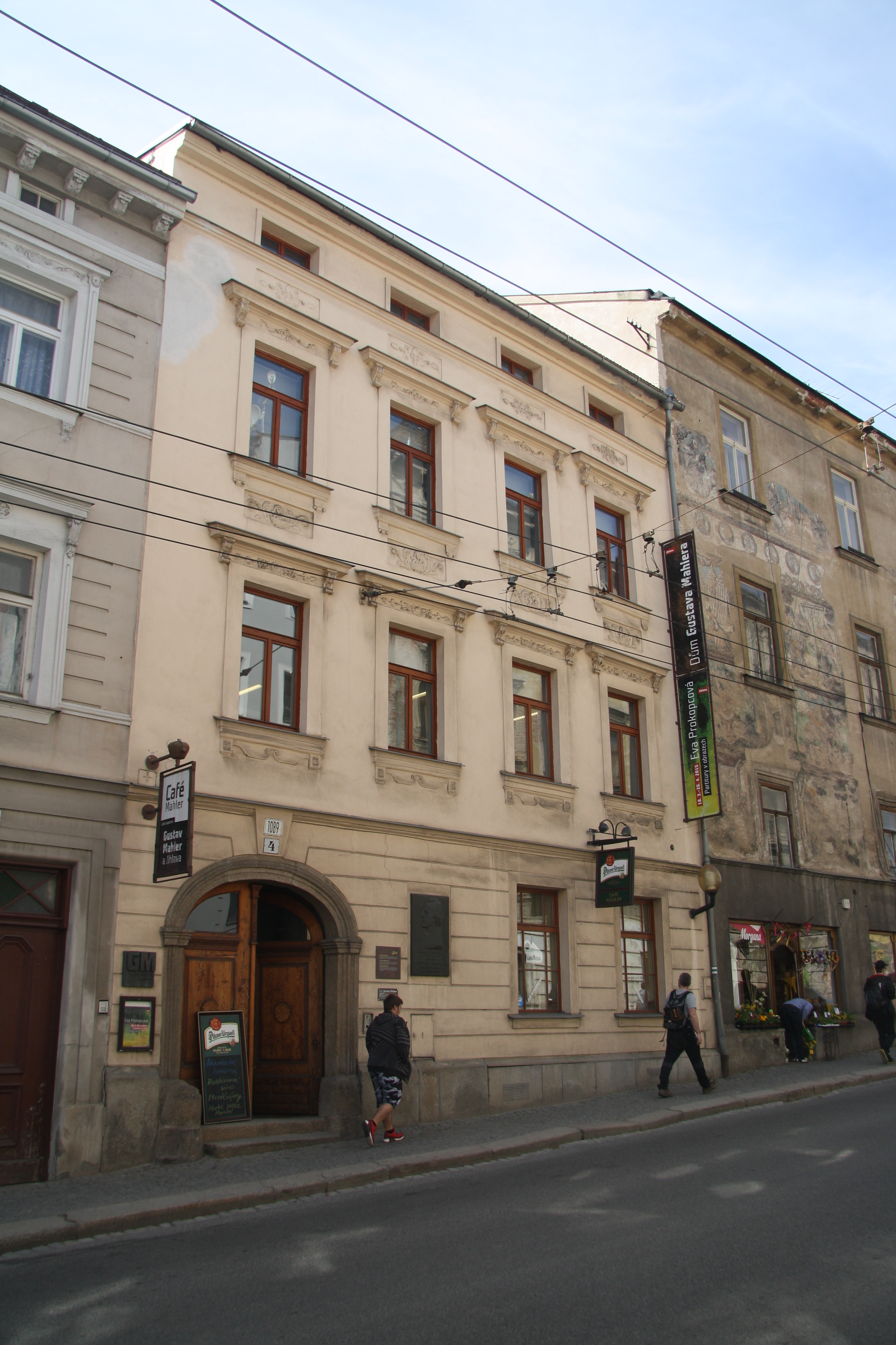 Cultural monument house Znojemská 4, Jihlava, Jihlava District.